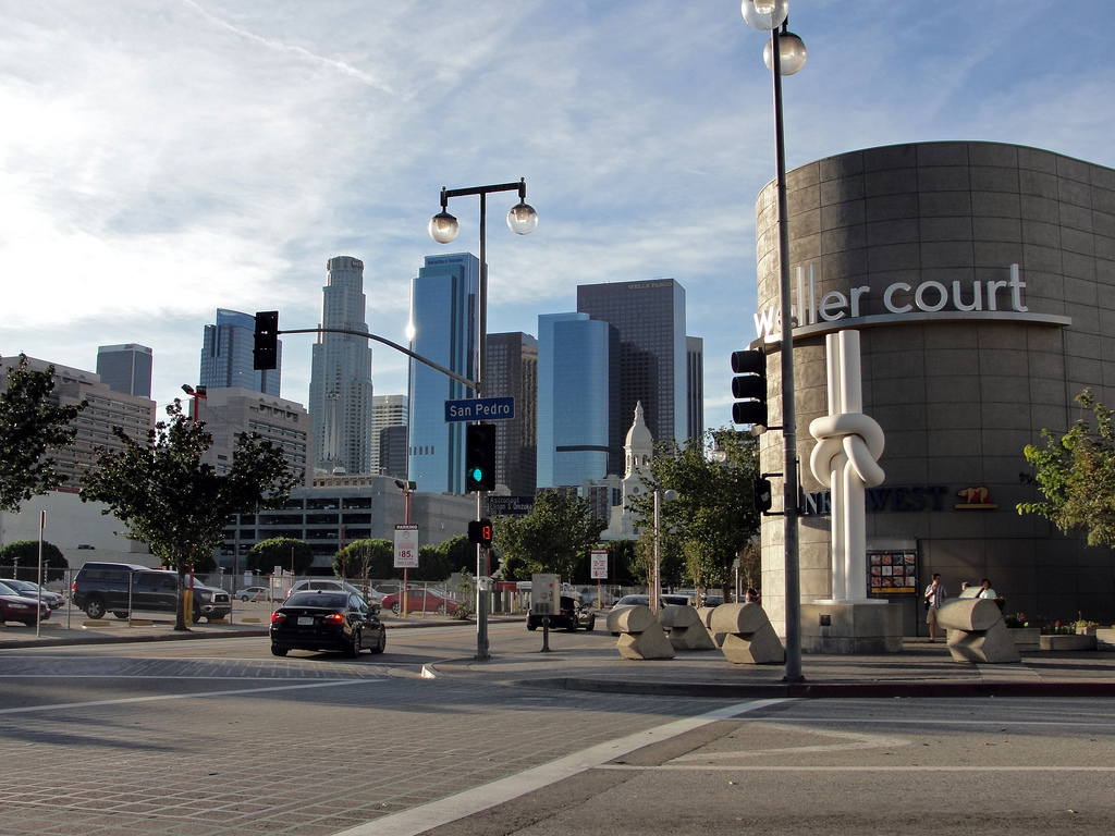 Weller Court with the Los Angeles Financial District in the background